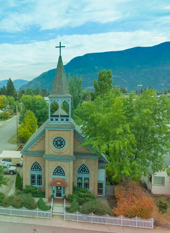 St. Richard's Church. Columbia Falls, Montana